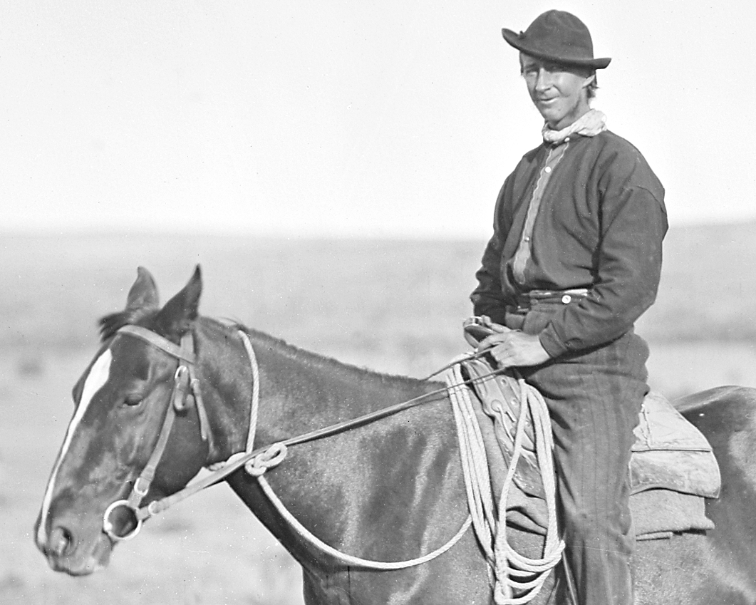 Henry Wood Elliot, circa 1870 a member of the 1871 Hayden U.S. Geological Survey to Yellowstone